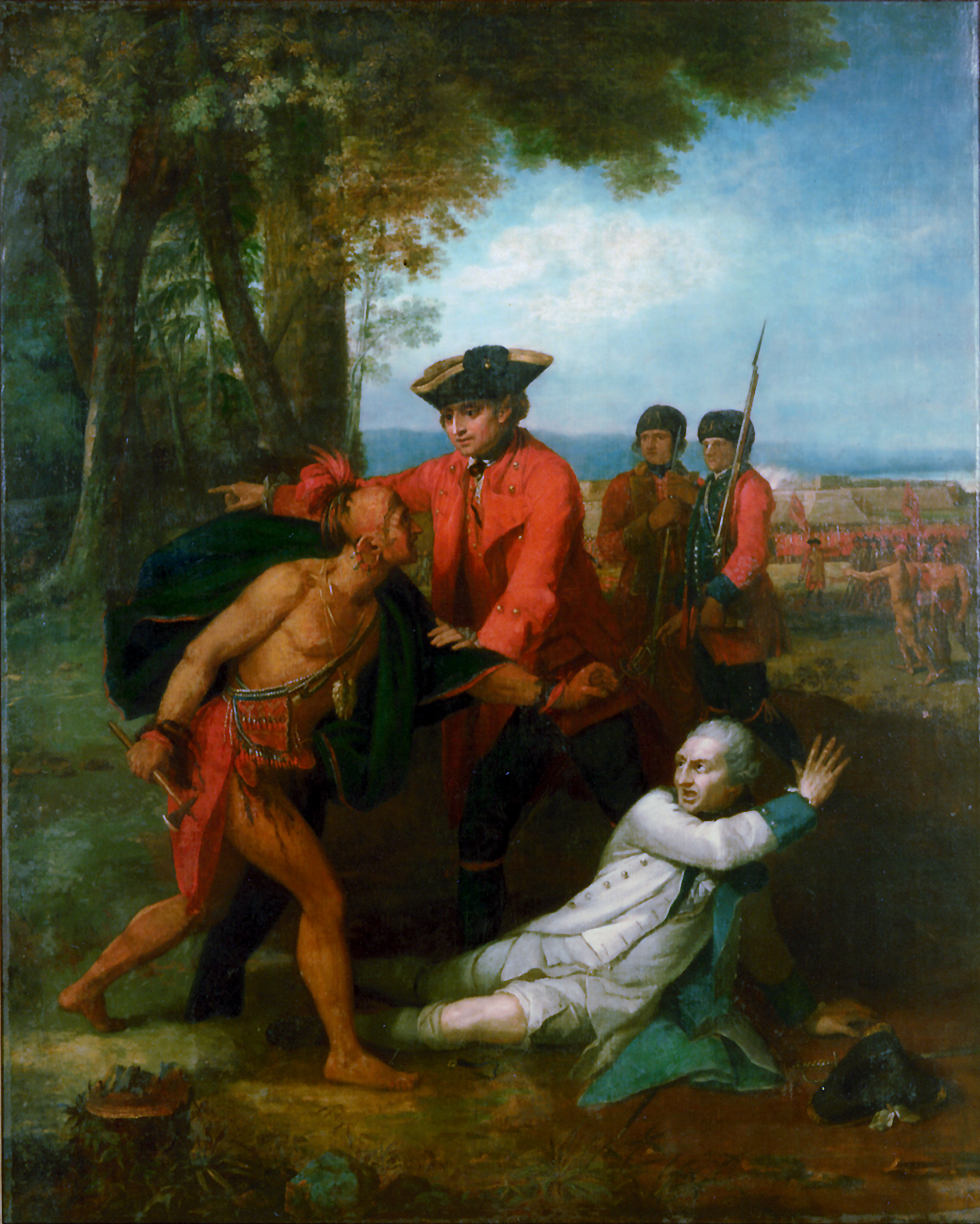 Depicts William Johnson saving the life of Baron Dieskau at the Battle of Lake George, 1755.